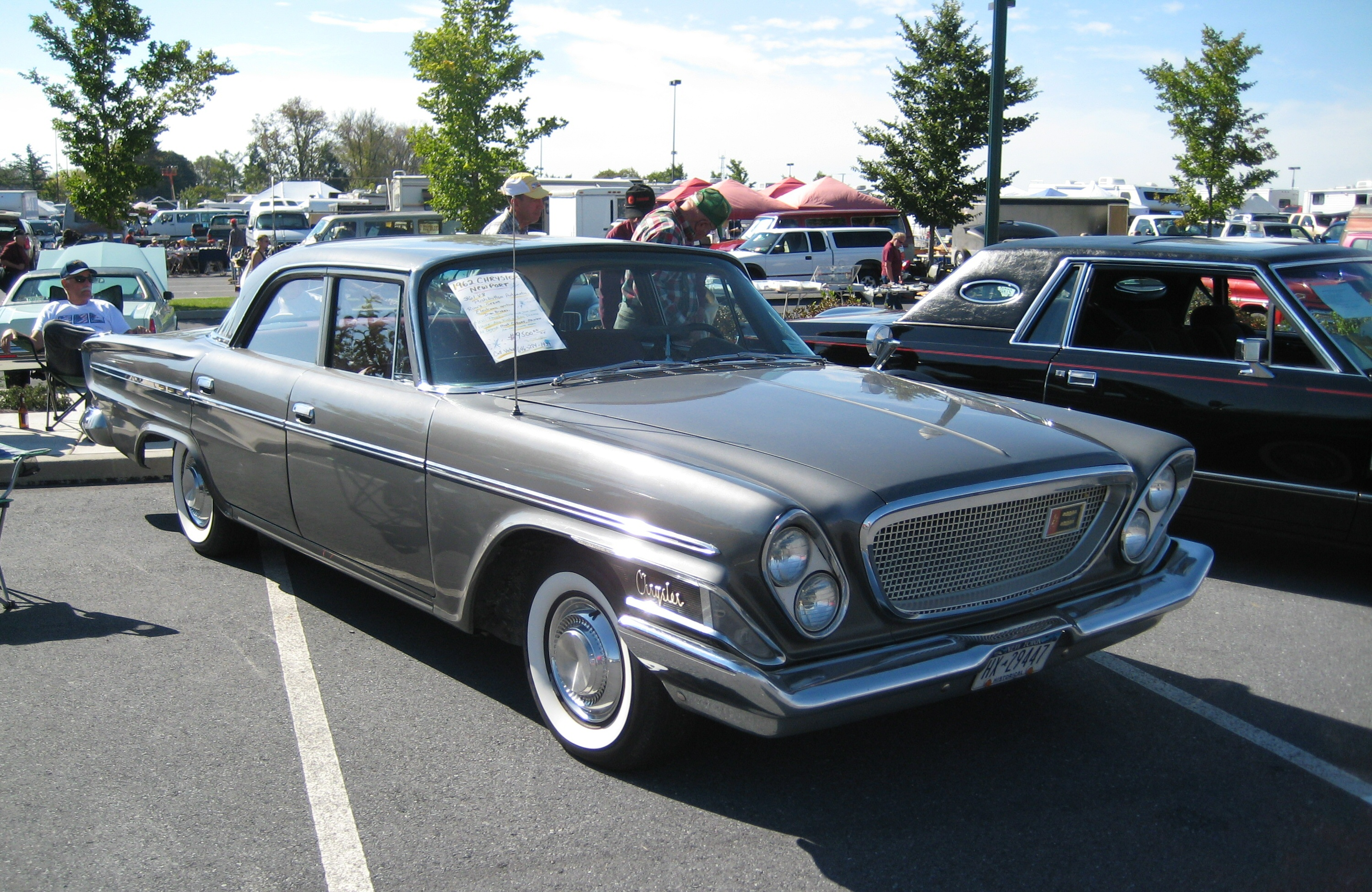 Chrysler Newport 1962